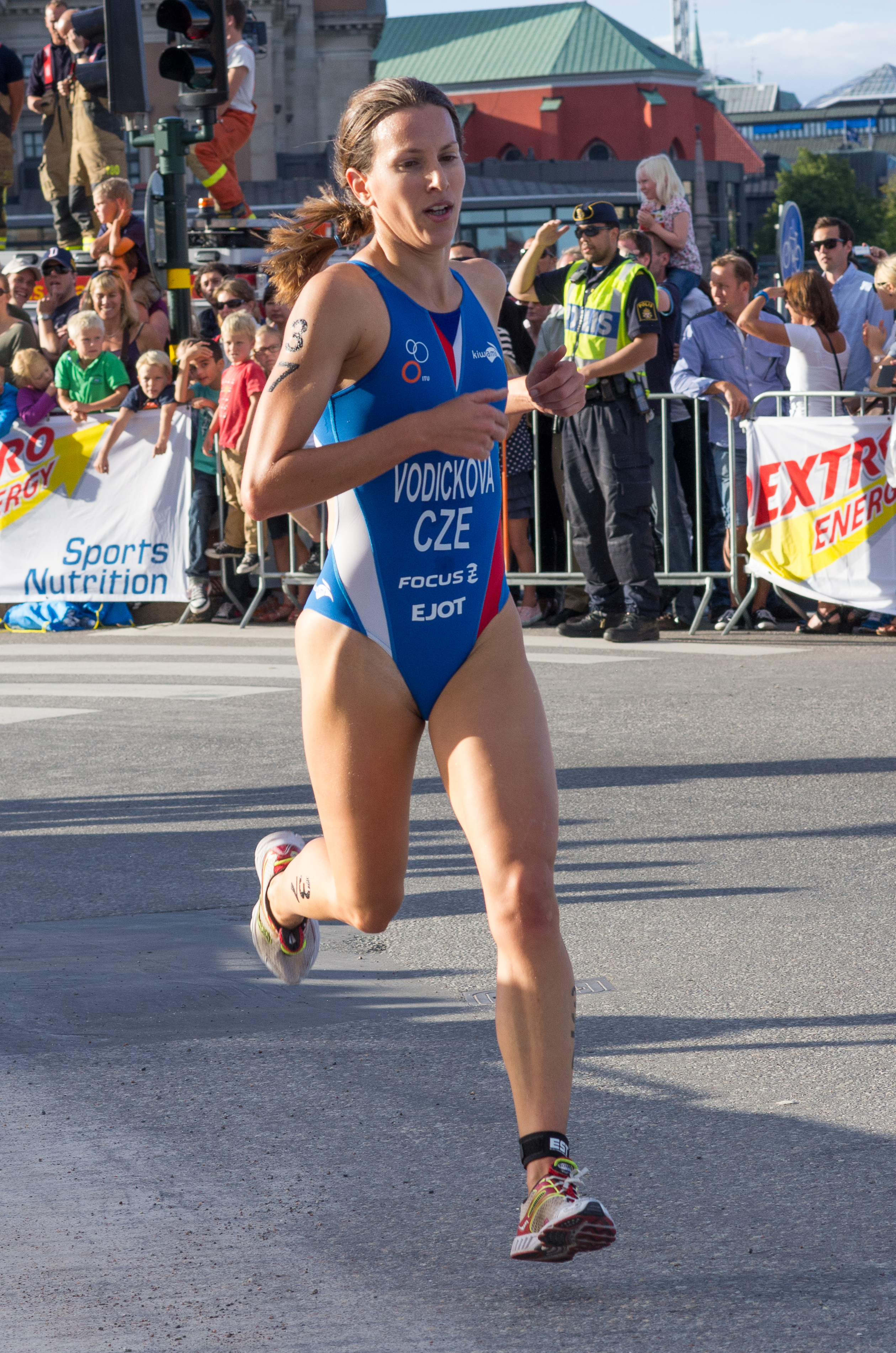 Radka Vodickova, triathlete from Czech Republic at World Championships in Stockholm, 25/8/12